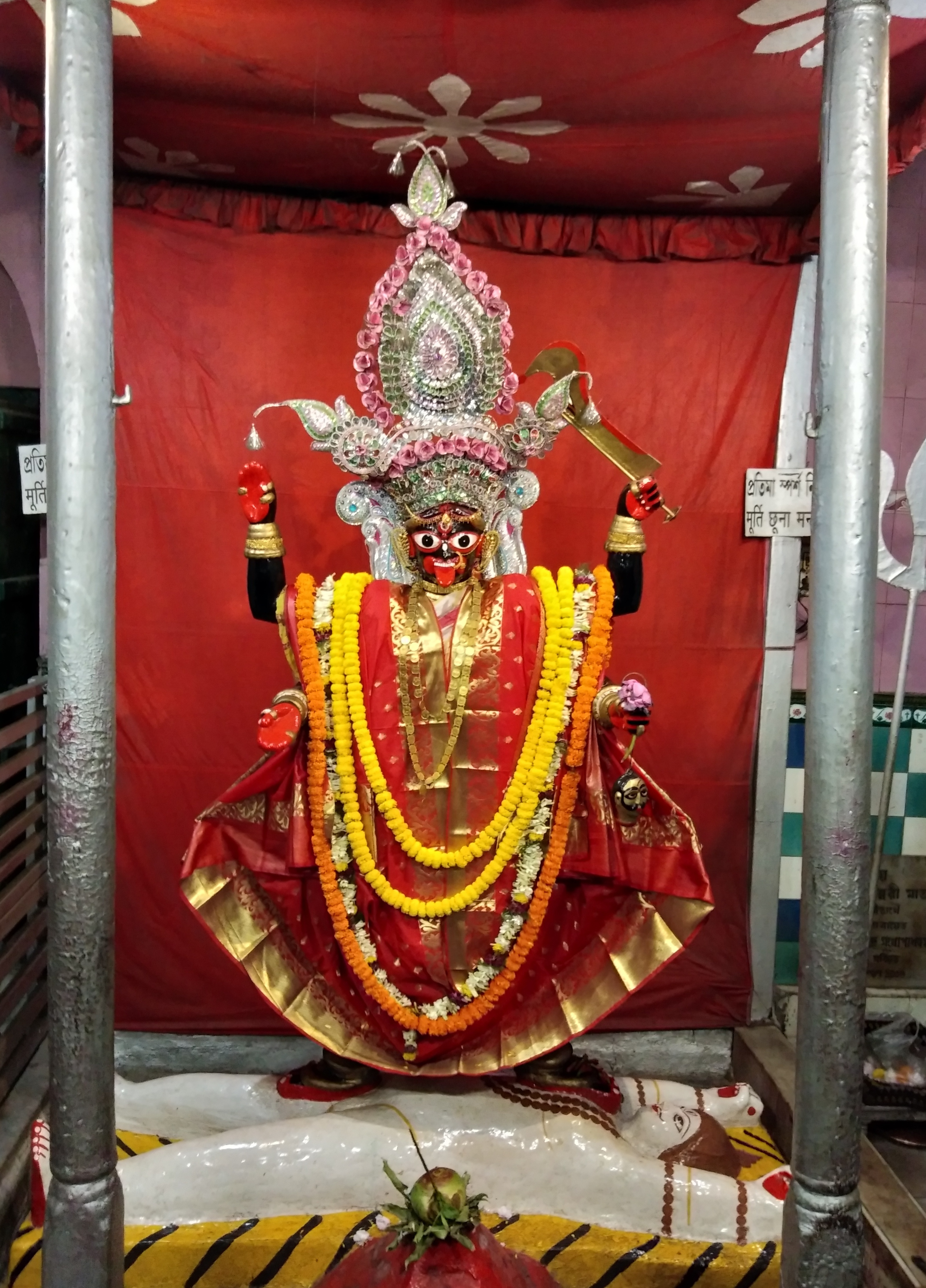 Siddheshwari Temple, Bagbazar